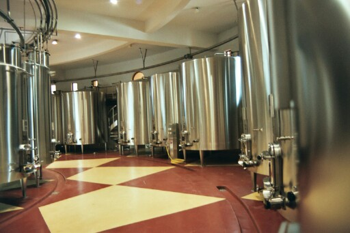 Château Pichon-Longueville-Baron in Pauillac